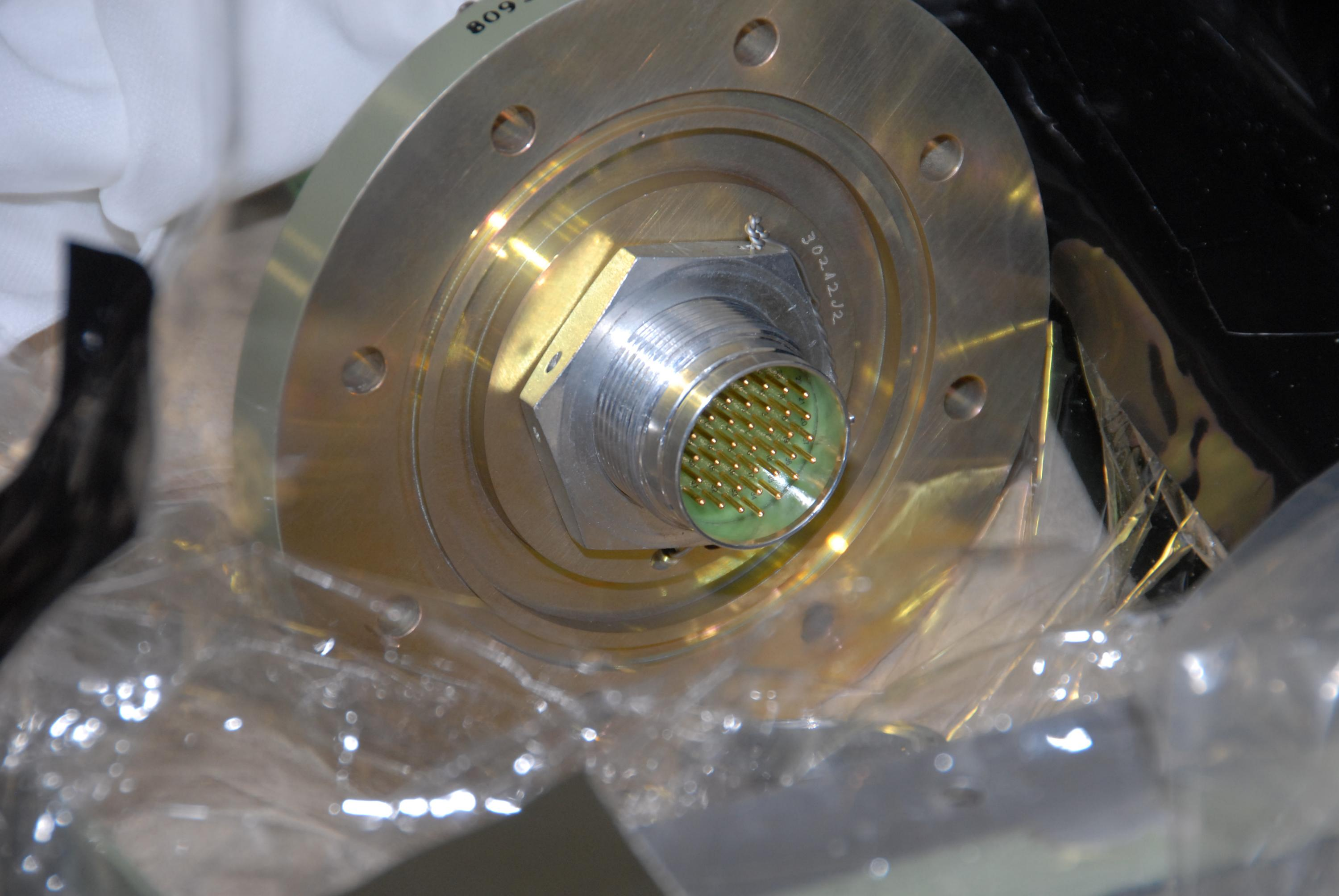 This closeup of the replacement feed-through connector for the engine cutoff, or ECO, sensor system on space shuttle Atlantis shows the pins that were soldered at Kennedy. The feed-through connector passes the wires from the inside of the tank to the outside. Results of a tanking test on Dec. 18 pointed to an open circuit in the feed-through connector wiring, which is located at the base of the tank. The pins in the replacement connector have been precisely soldered to create a connection that allows sensors inside the tank to send signals to the computers onboard Atlantis. The work is being done on Launch Pad 39A. Space shuttle Atlantis is now targeted for launch on Feb. 7.